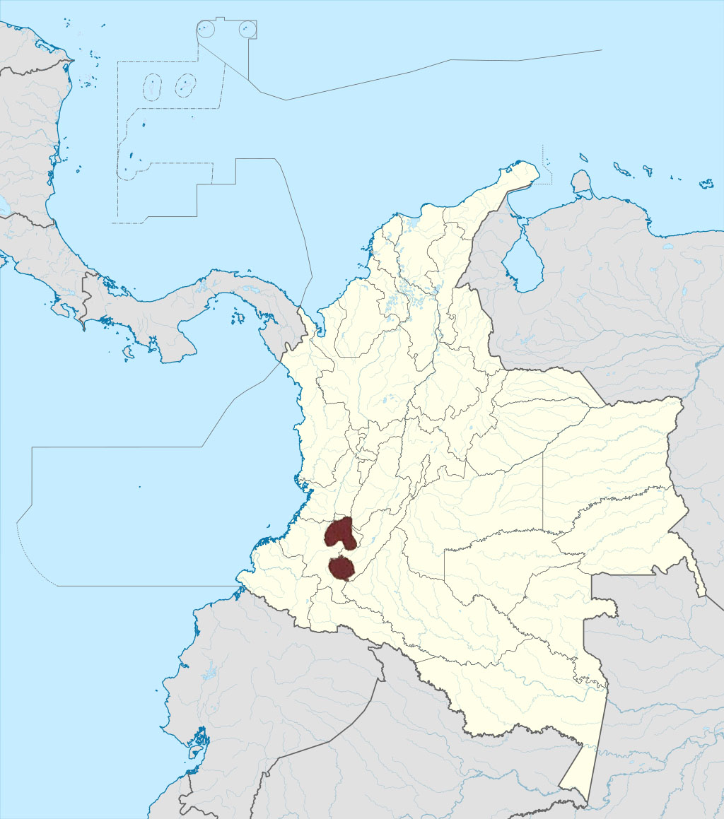 Historical territory of the San Agustín culture